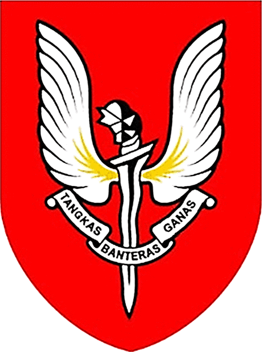 The official crest of Royal Malaysia Police Special Actions Unit (UTK) of the Pasukan Gerakan Khas.